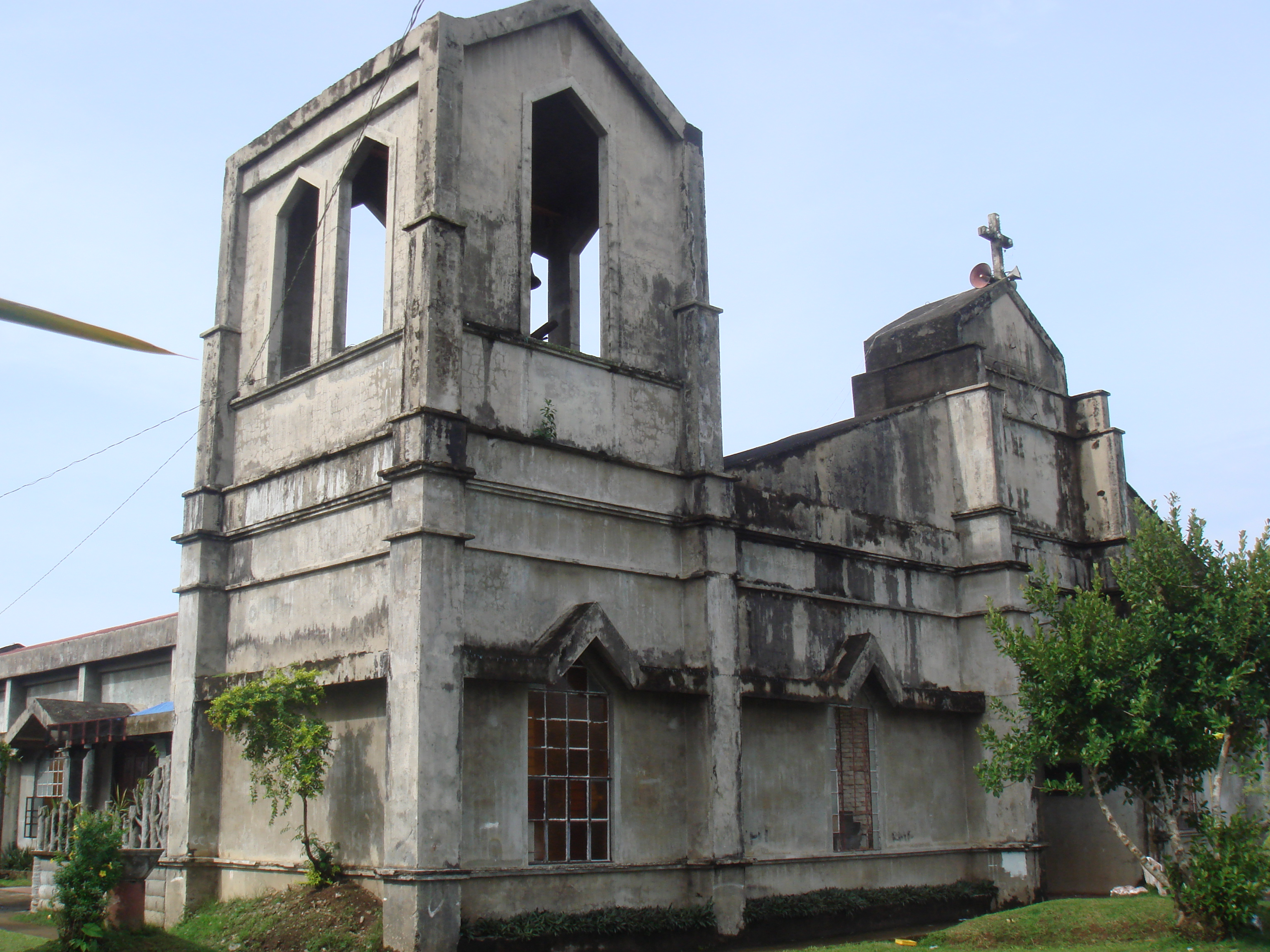 Facade of St. James the Greater church in Panganiban, Catanduanes